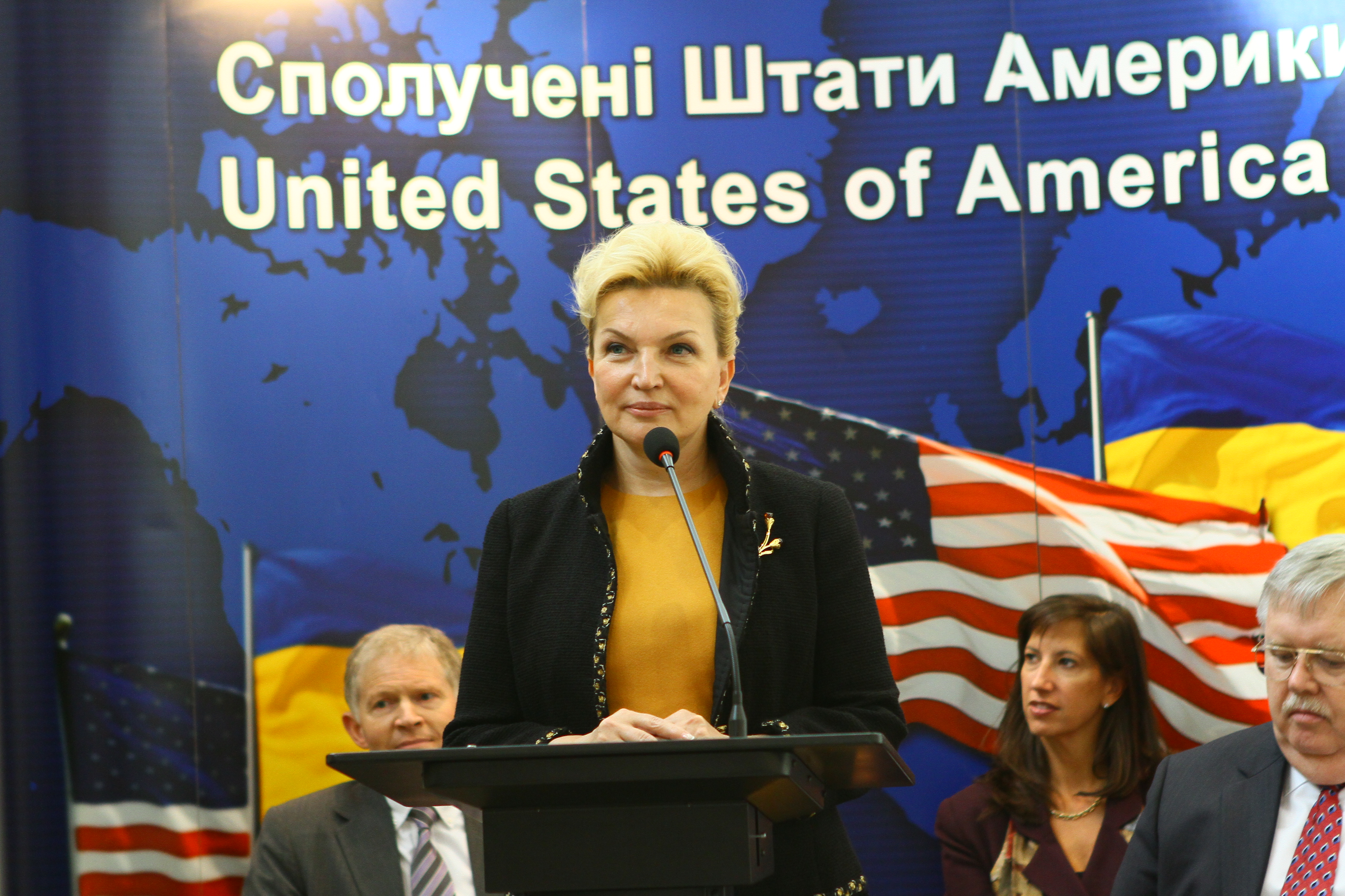 Raisa Bogatyrova